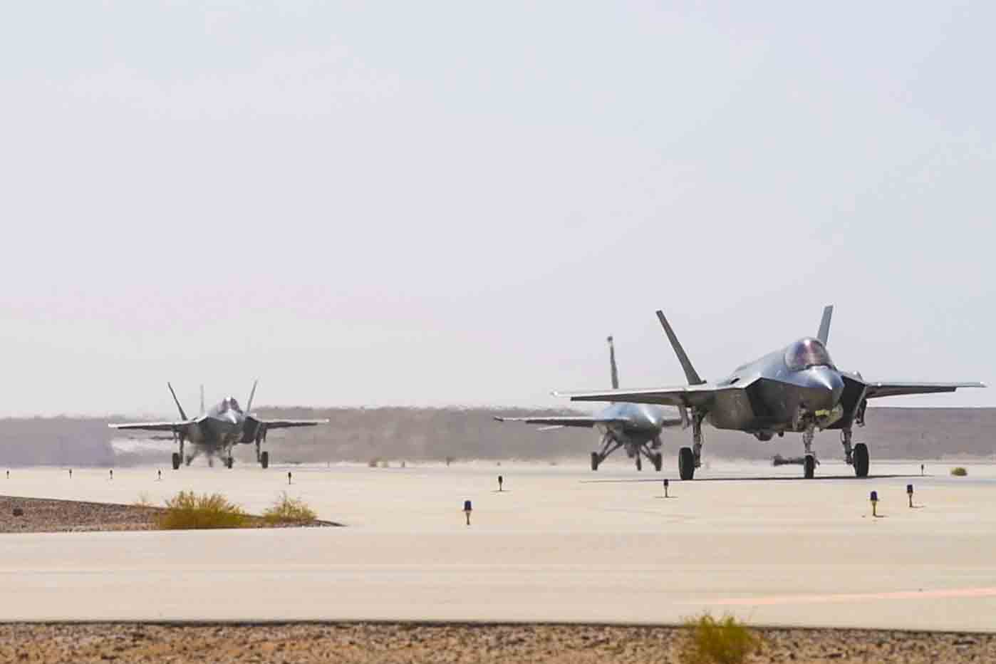 Two U.S. Air Force F-35 Lightning IIs and one F-16 Fighting Falcon taxi down the flight line at Prince Sultan Air Base, Kingdom of Saudi Arabia, Feb. 8, 2020. These 5th Generation fighter aircraft from the 336th Expeditionary Fighter Squadron at Al Dhafra Air Base, United Arab Emirates, performed an agile combat employment mission that exercised a critical capability of U.S. Air Forces Central Command.